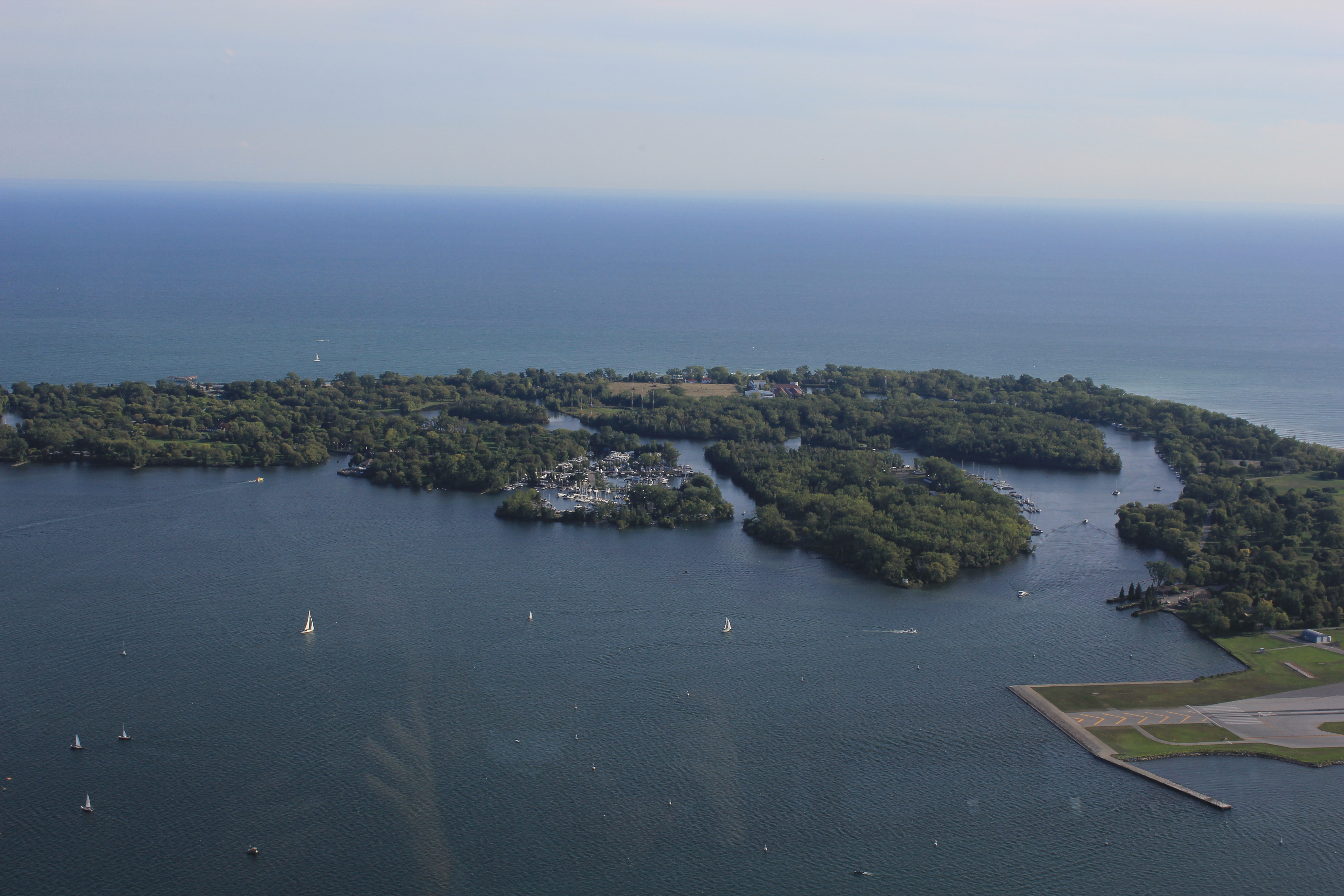 View from the CN Tower, 2015